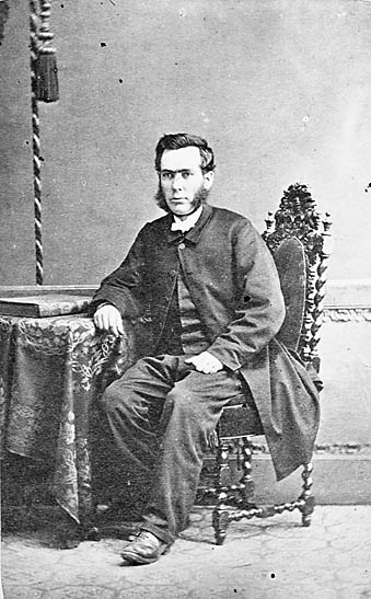 1 negative : glass, wet collodion, b&w ; 11 x 16.5 cm.